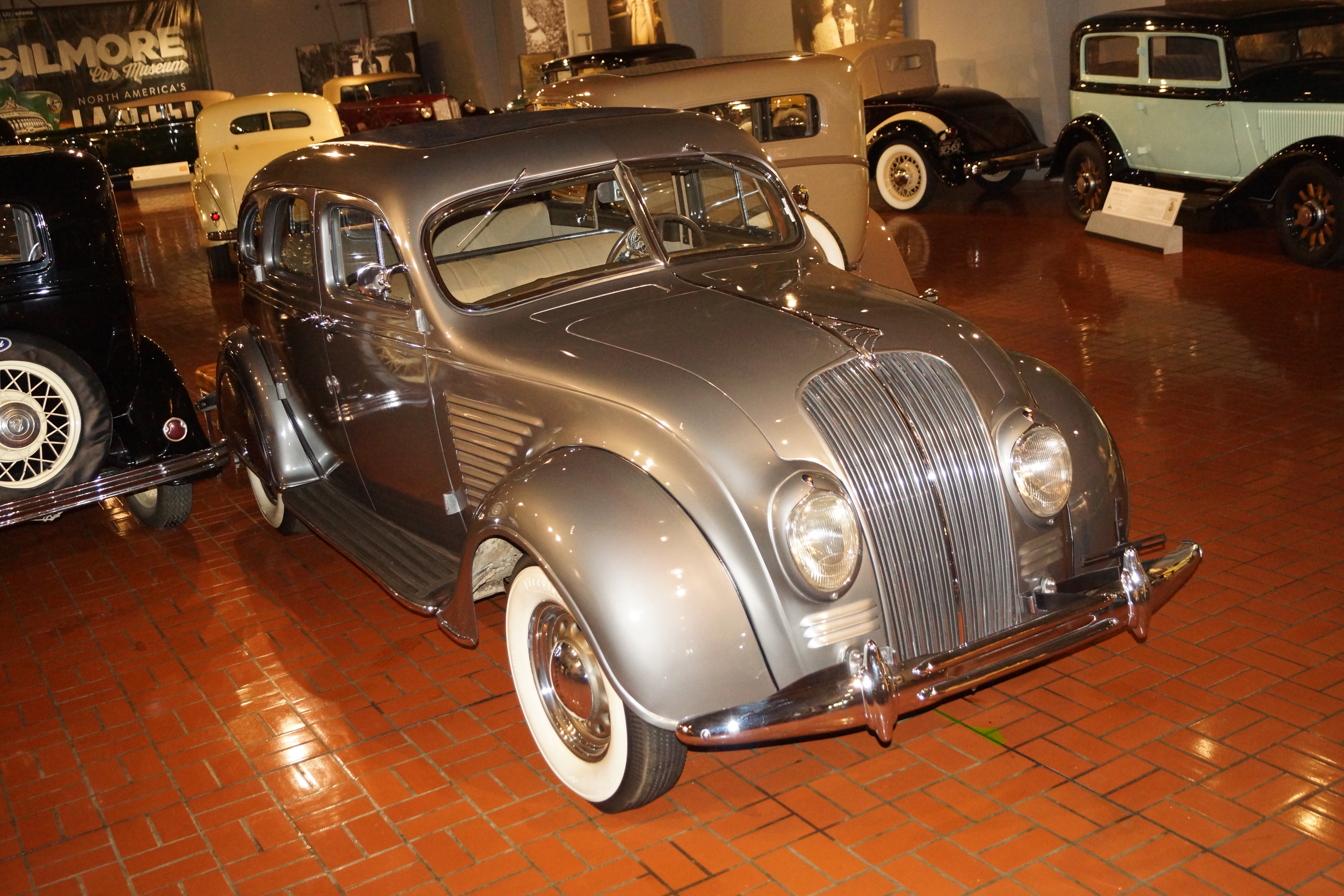 Gilmore Car Museum 6865 W Hickory Rd. Hickory Corners, Michigan May 2017 Back in February I was told I had to schedule some vacation before July, At about the same, an article appeared on the Hemmings blog about the first ever joint meeting of AACA (Anitique Automobile Club of America) and CCCA (Classic Car Club of America) in Auburn, Indiana. It was too good of opportunity to pass up two car clubs and all of the automotive history packed into Auburn, Indiana. Since I was driving from Mnnesota, I made a slight detour to see the Gilmore Car Museum on the way to Indiana. Link to Hemmings Article